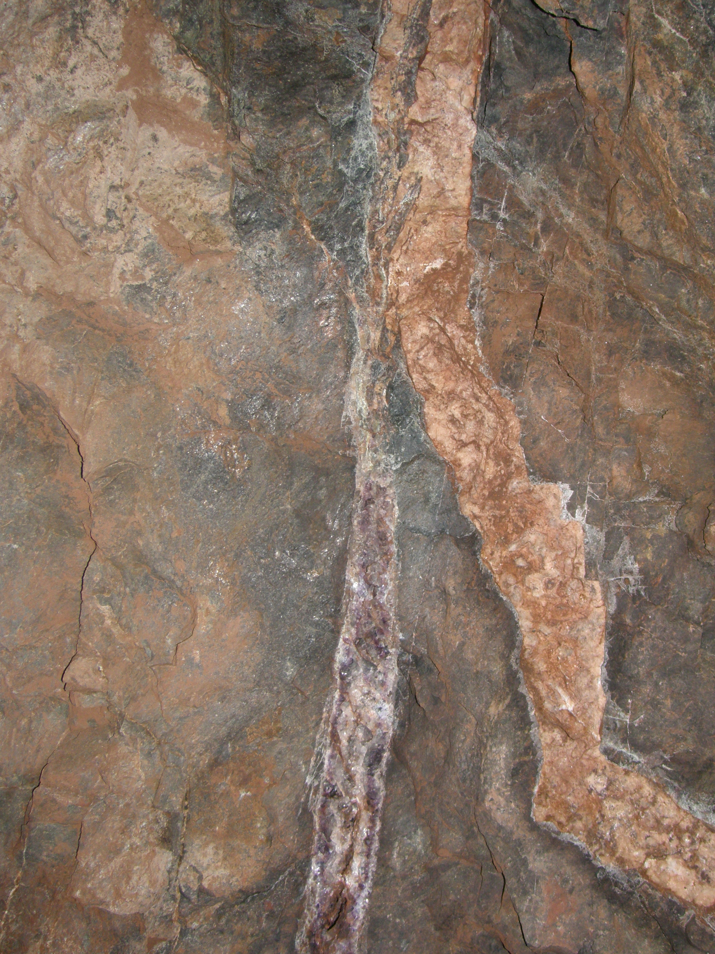 Two different types of veins at the Poehla-Haemmerlein deposit, Germany: a "kku" vein (about 270 Ma to 280 Ma old) with quartz and violet fluorit on the left and a "mgu" vein (about 150 Ma to 180 Ma old) with dolomite and goethite on the right; host rock is a skarn. These vein types of veins are the major carriers of uranium deposits of the Erzgebirge.